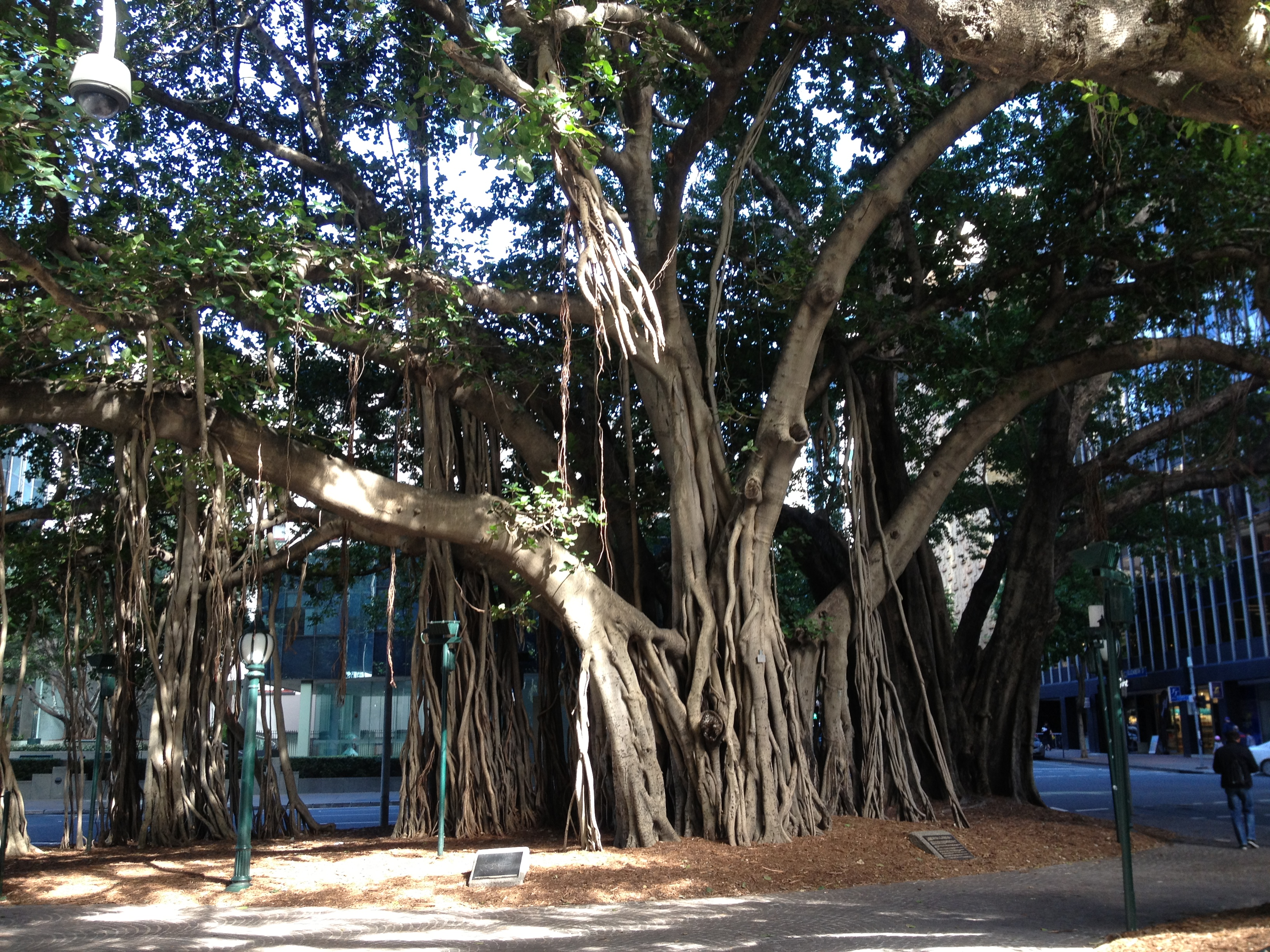 Fig tree at the corner of Creek Street and Elizabeth Street, Brisbane